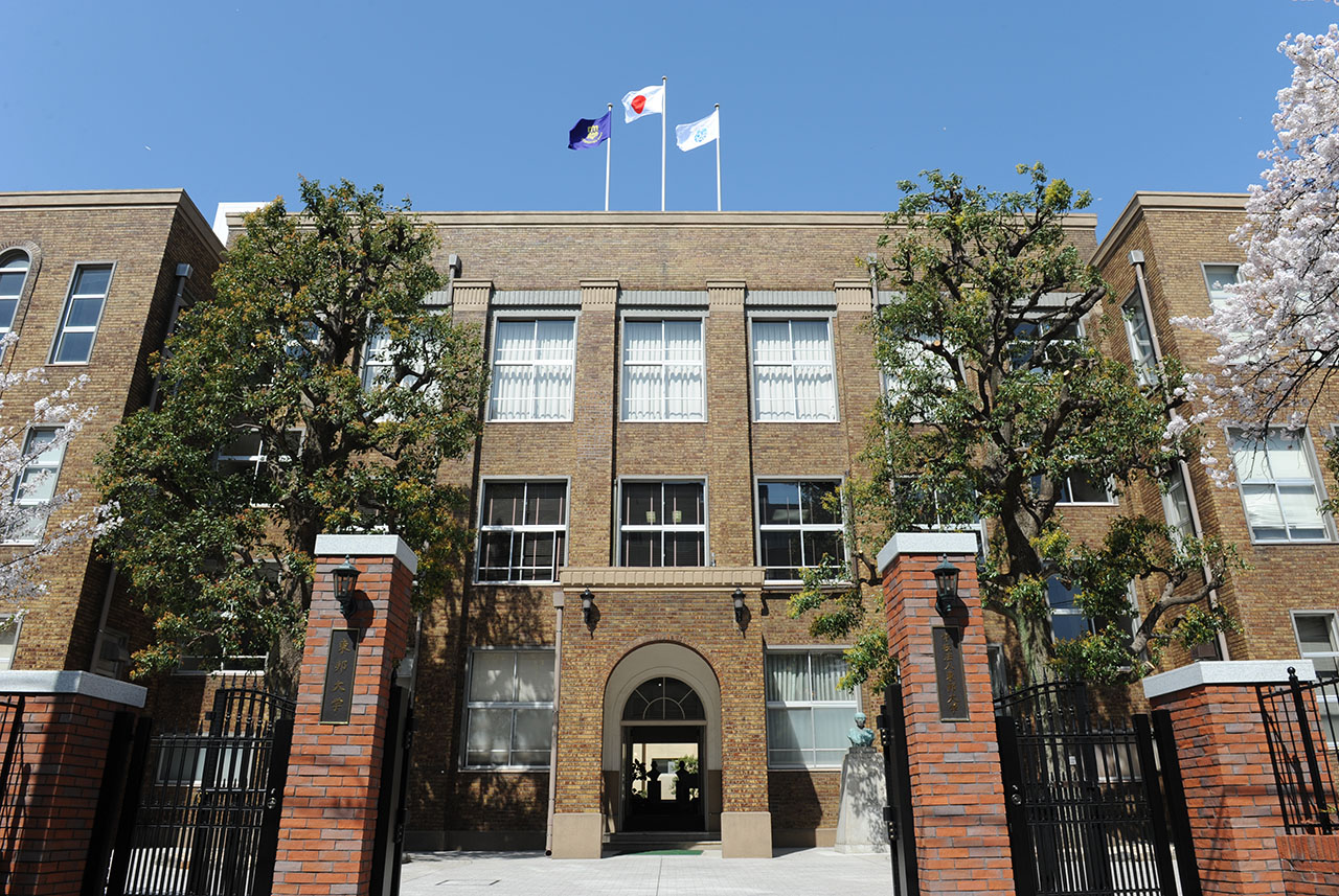 Main building of Toho University in Ota, Tokyo, Japan